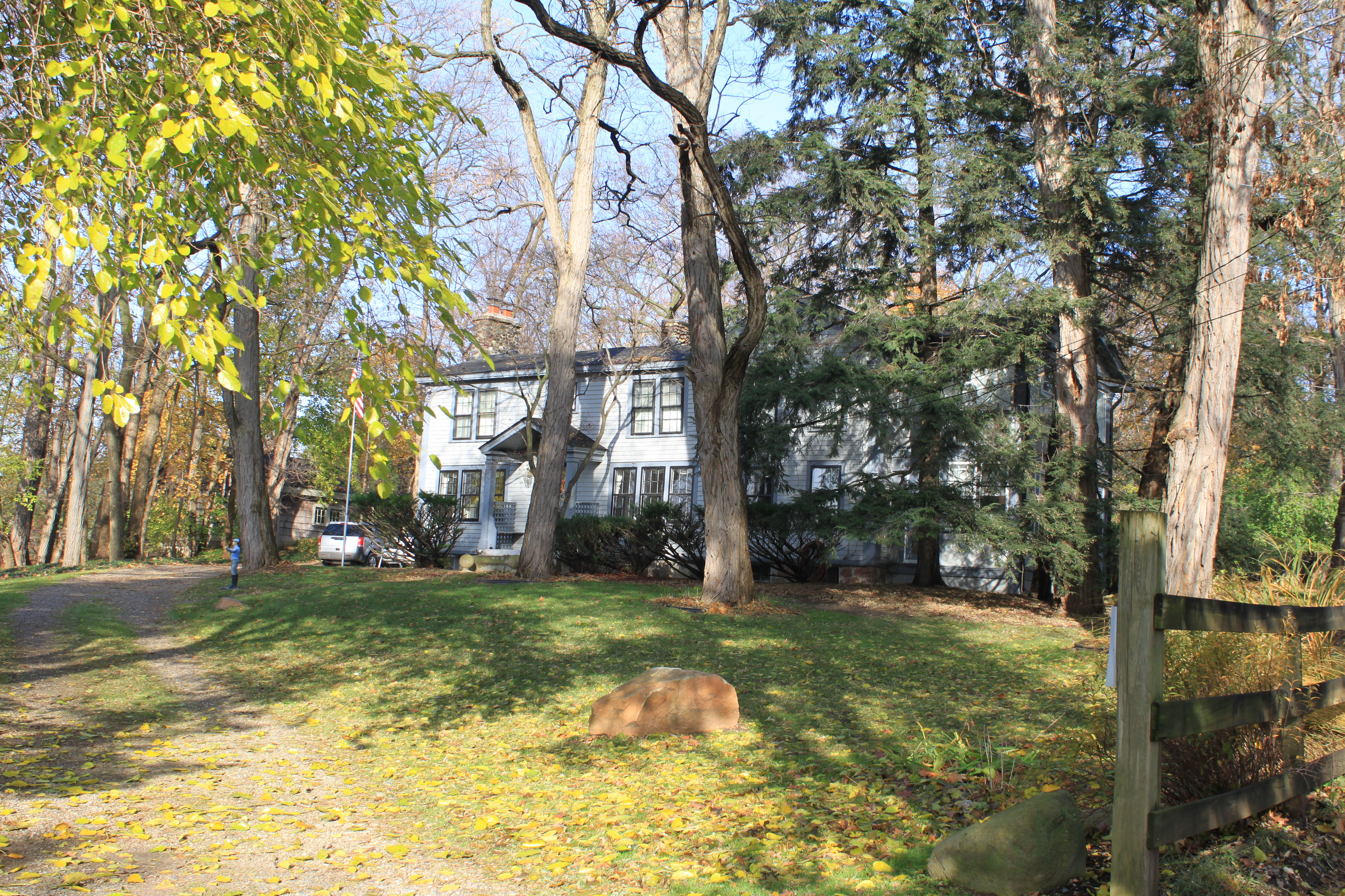 Botsford-Graser House and gardens historic site — at 24105 Locust Street, Farmington Hills, Michigan. A historical marker down the road from the house on the adjacent Oakwood Cemetery explains that the house was once owned by Earle Graser, the original voice of the 'Lone Ranger' character on the radio. The building is a Registered Michigan State Historic Site.